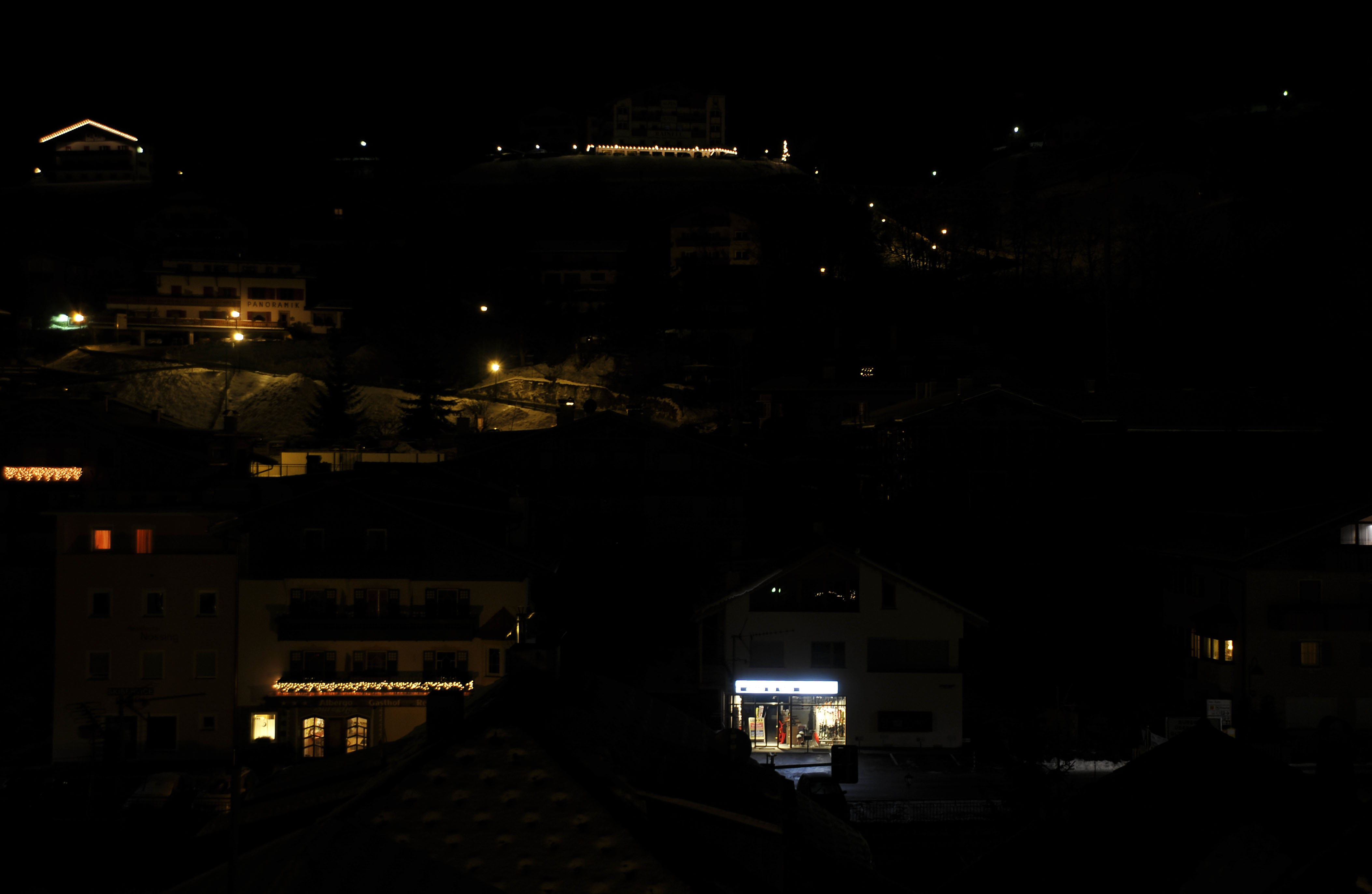 Light pollution in Überwasser in the municipality of Kastelruth in Val Gardena at 1 am.